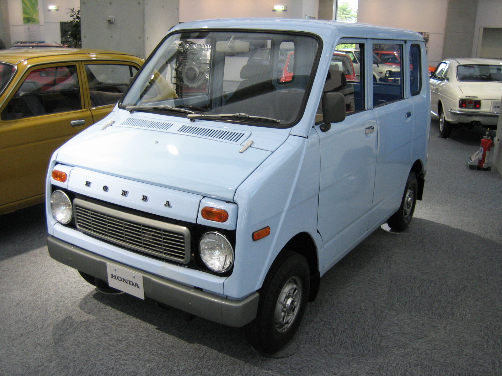 I photoed HondaLifeStepvan in the Honda collection hall.